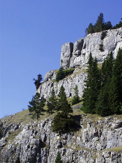 Limestone escarpment - World's End. A limestone escarpment at 'World's End' to the north of Llangollen in the Dee valley.